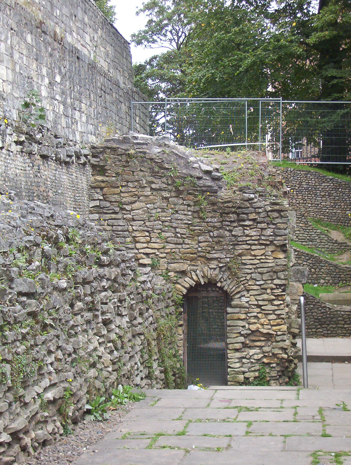 The Anglian Tower, York, England was built into a breach in the City's Roman walls, the date of its construction is uncertain.